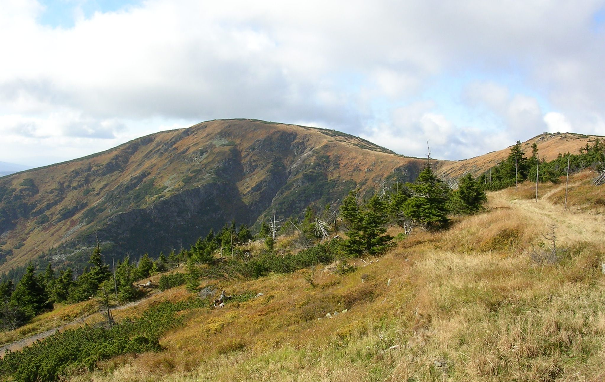 Krkonoše Mountains, Kotelní jámy. Municipality Vítkovice, Liberec Region, the Czech Republic.